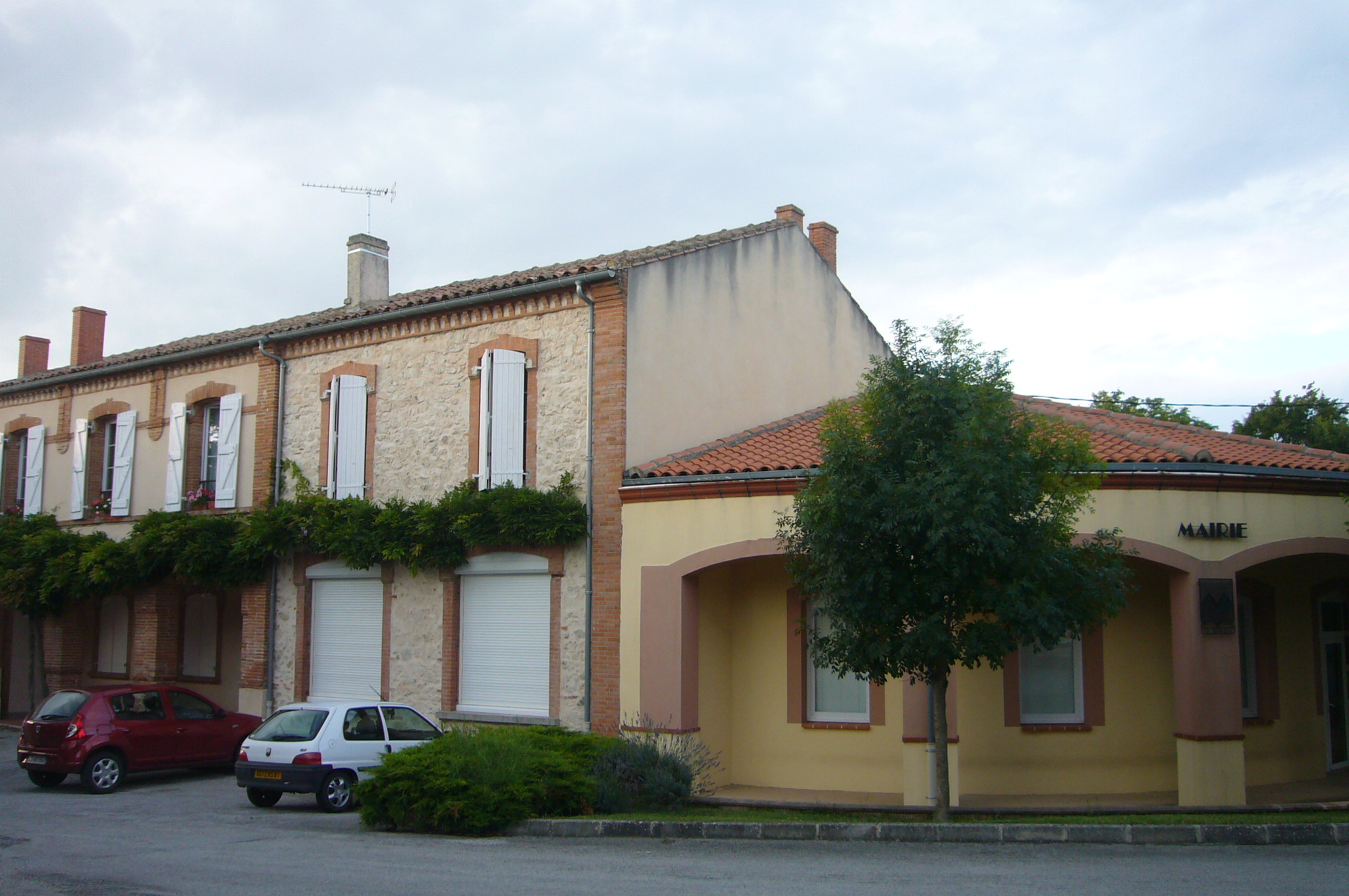 The town hall in Teyssode